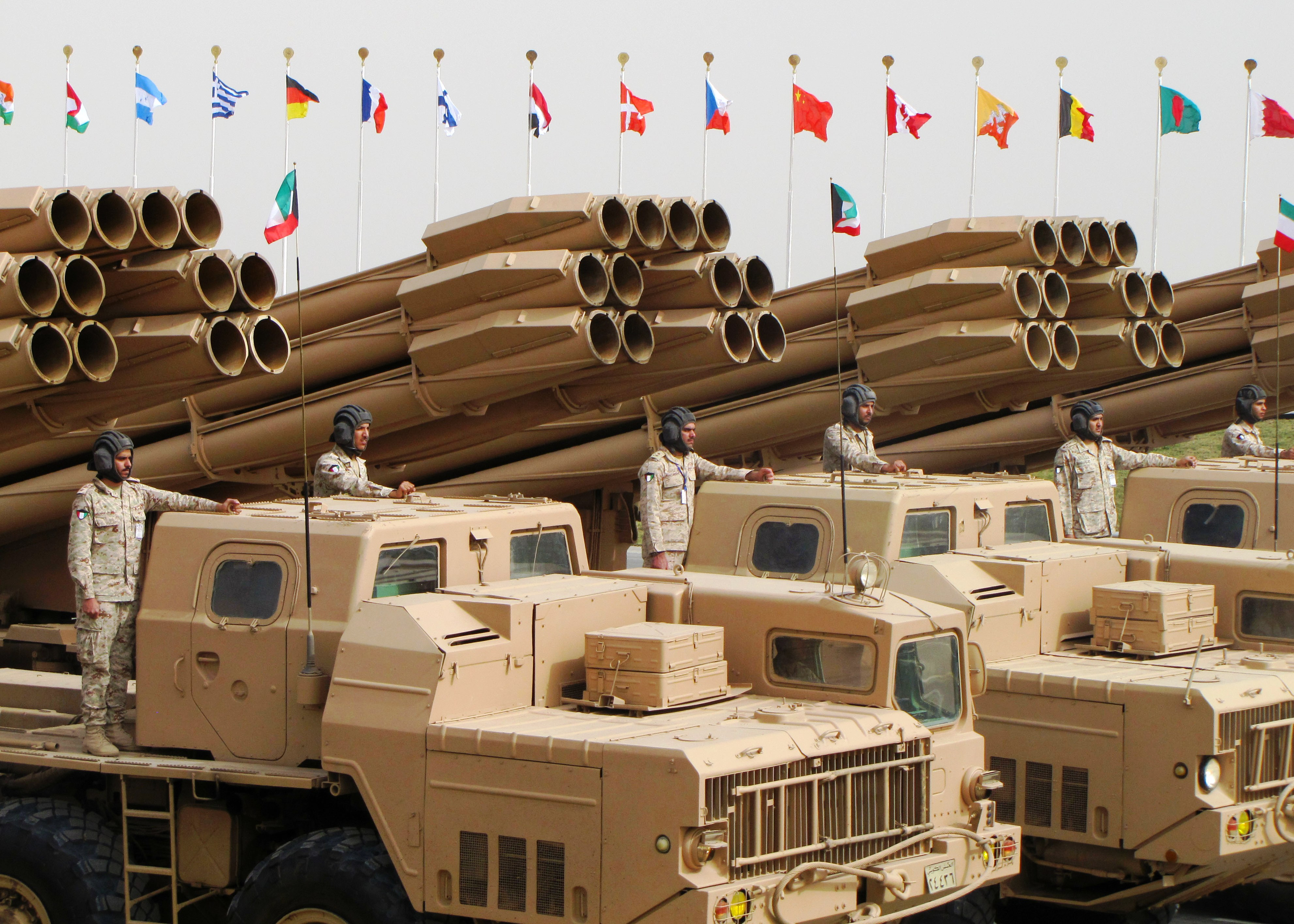 Kuwait celebrated their 50th year of independence from Great Britain and 20th year of liberation from Saddam Hussein’s invading forces with several coalition countries, including the U.S., by staging a very large military parade, Feb. 26. Numerous aircraft flew over the parade grounds to kick off the two-hour long parade, which included tanks, rocket launchers (here: BM-30 Smerch), multi-barrelled guns, and military formations of servicemembers from countries, such as Kuwait, the U.S., U.K., France, Saudi Arabia, Syria, and Qatar.